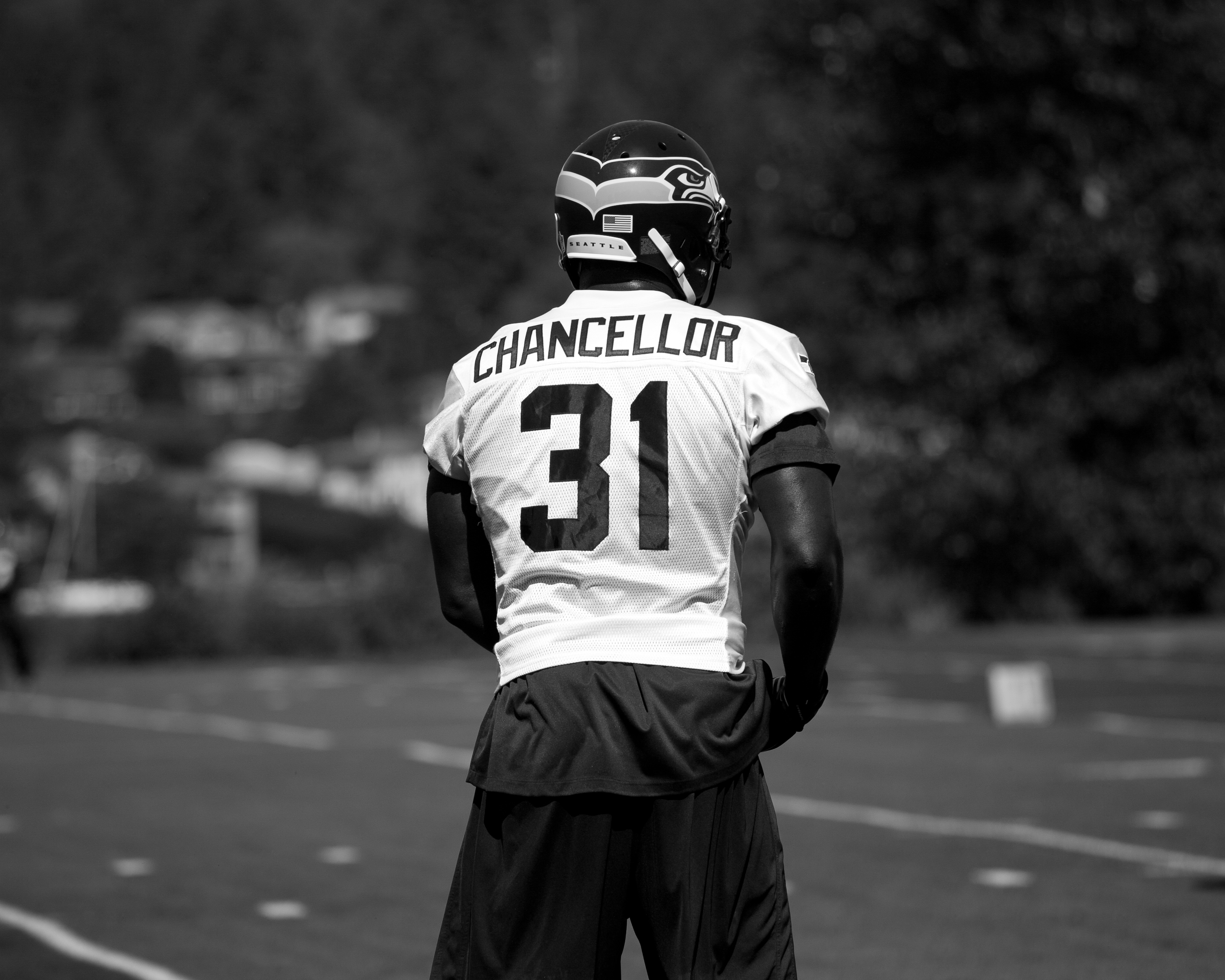 Kam Chancellor, Seattle Seahawks